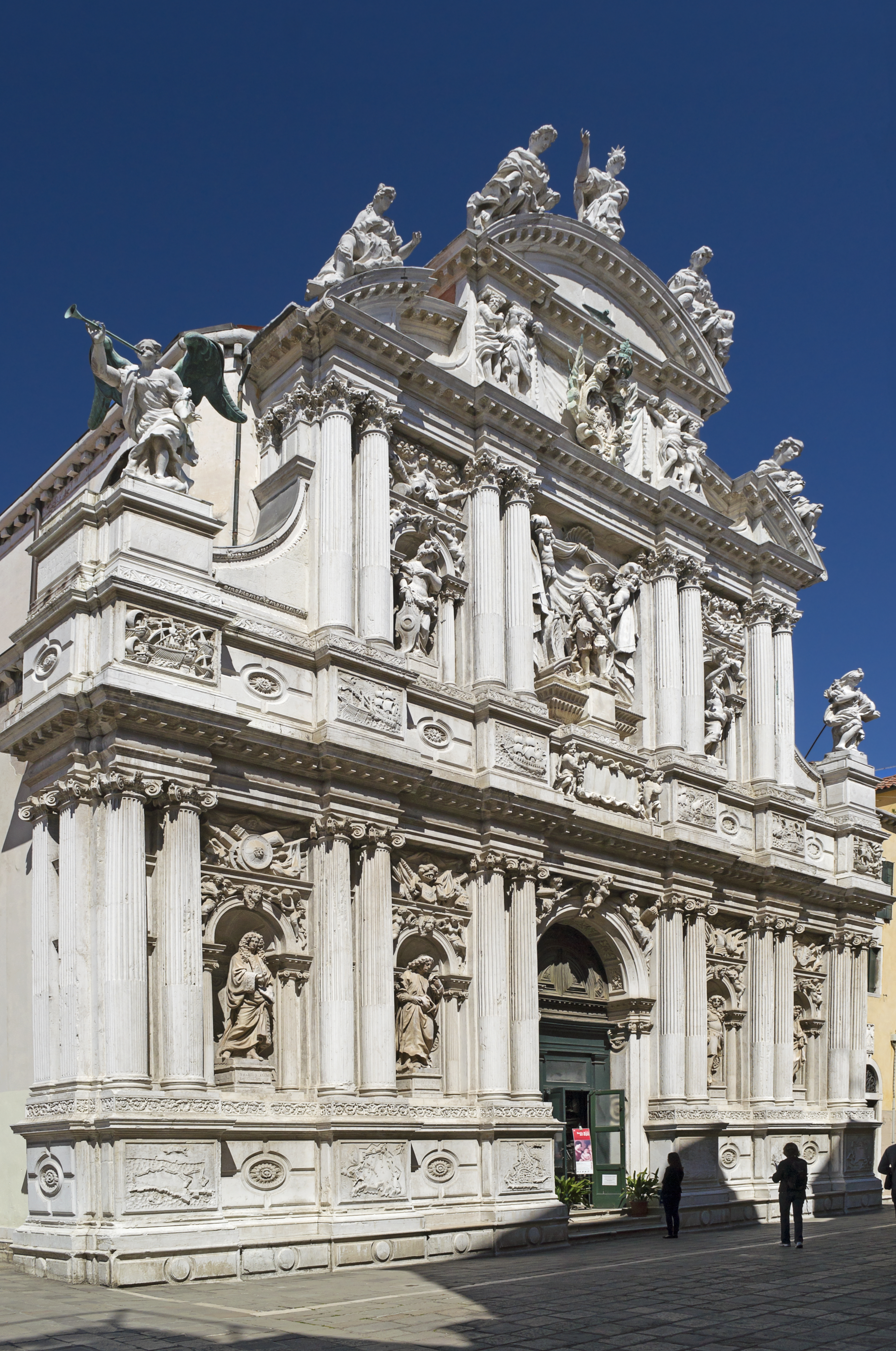 Church Santa Maria del Giglio in Venice facade by Giuseppe Sardi.